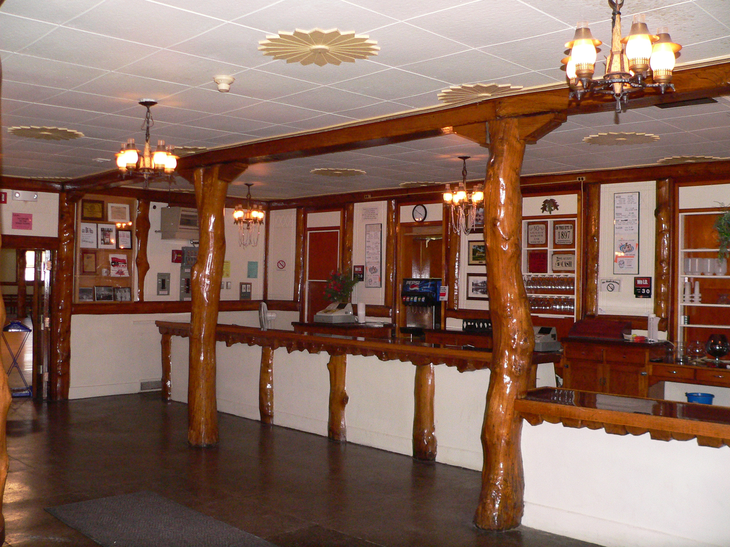 Barroom in Oak Ballroom in Schuyler, Nebraska. The building was designed in Tudor Revival style by architect Emiel Christensen and built in 1935. It is listed in the National Register of Historic Places.